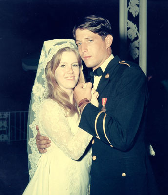 Al and Tipper Gore wedding photo